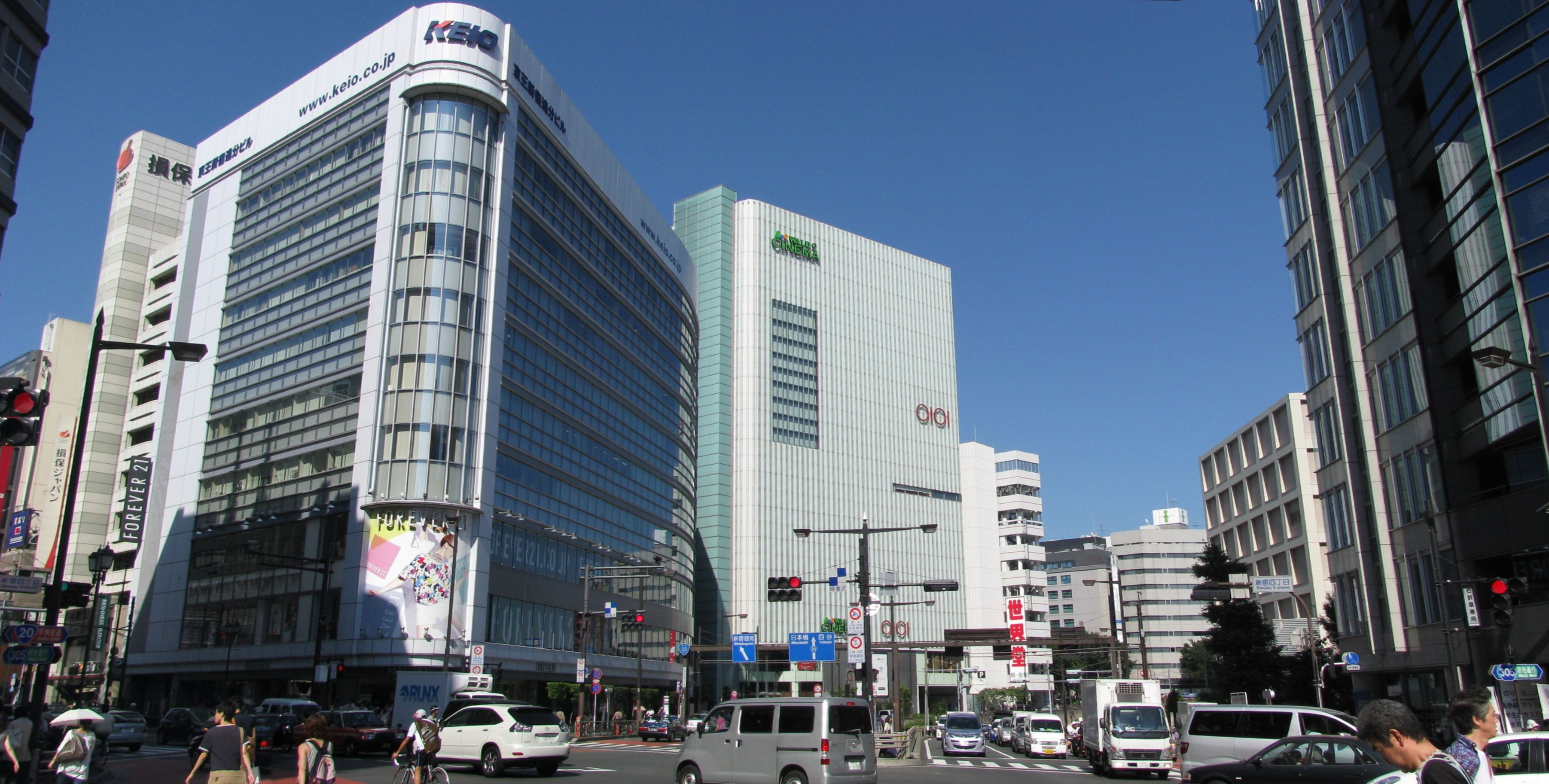 The Shinjuku 4-chōme intersection is crossing of Japan National Route 20 and Tokyo prefectural road route 305. This location is Shinjuku in Shinjuku-ku, Tokyo, Japan.